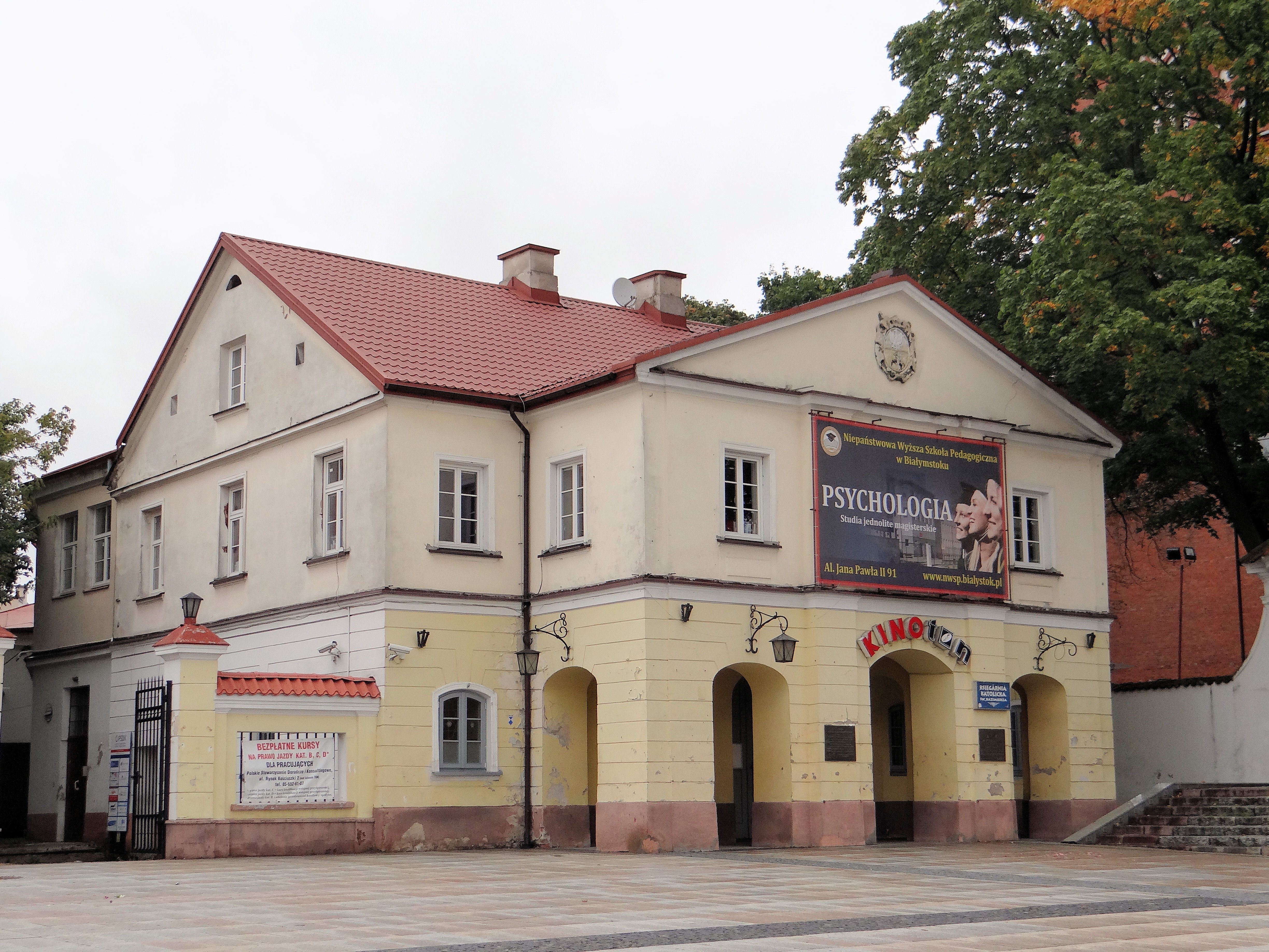 Cinema Ton in Białystok